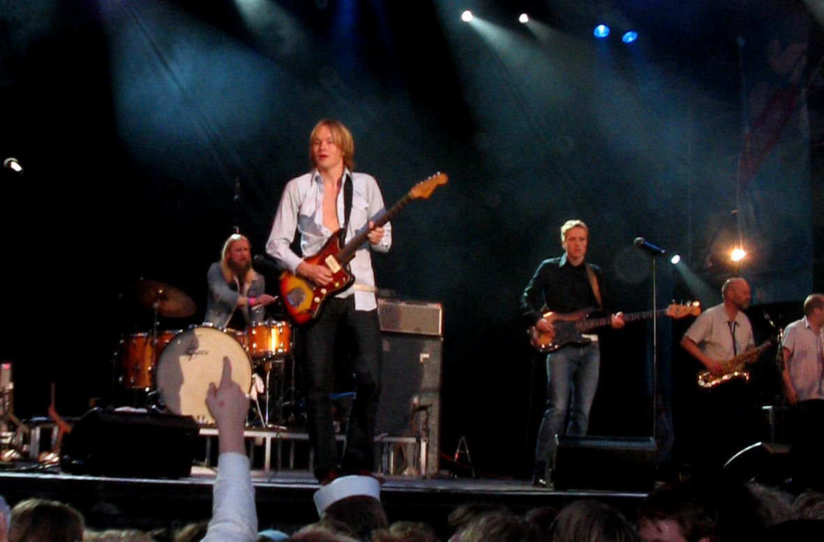 The norwegian band Bigbang live.